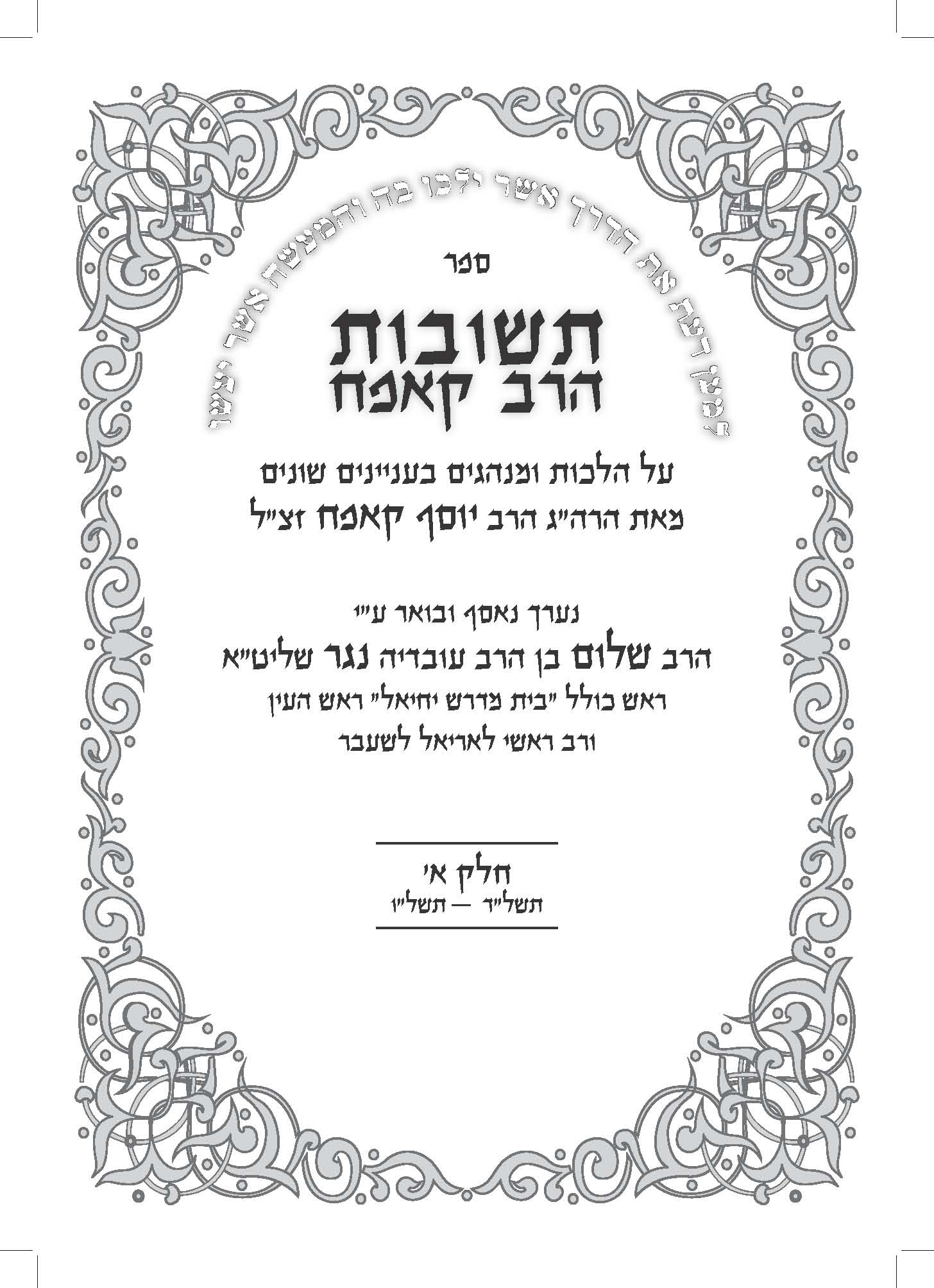 Front page of a book written by rabbi Shalom Nagar about answers of rabbi Yosef Kapac.